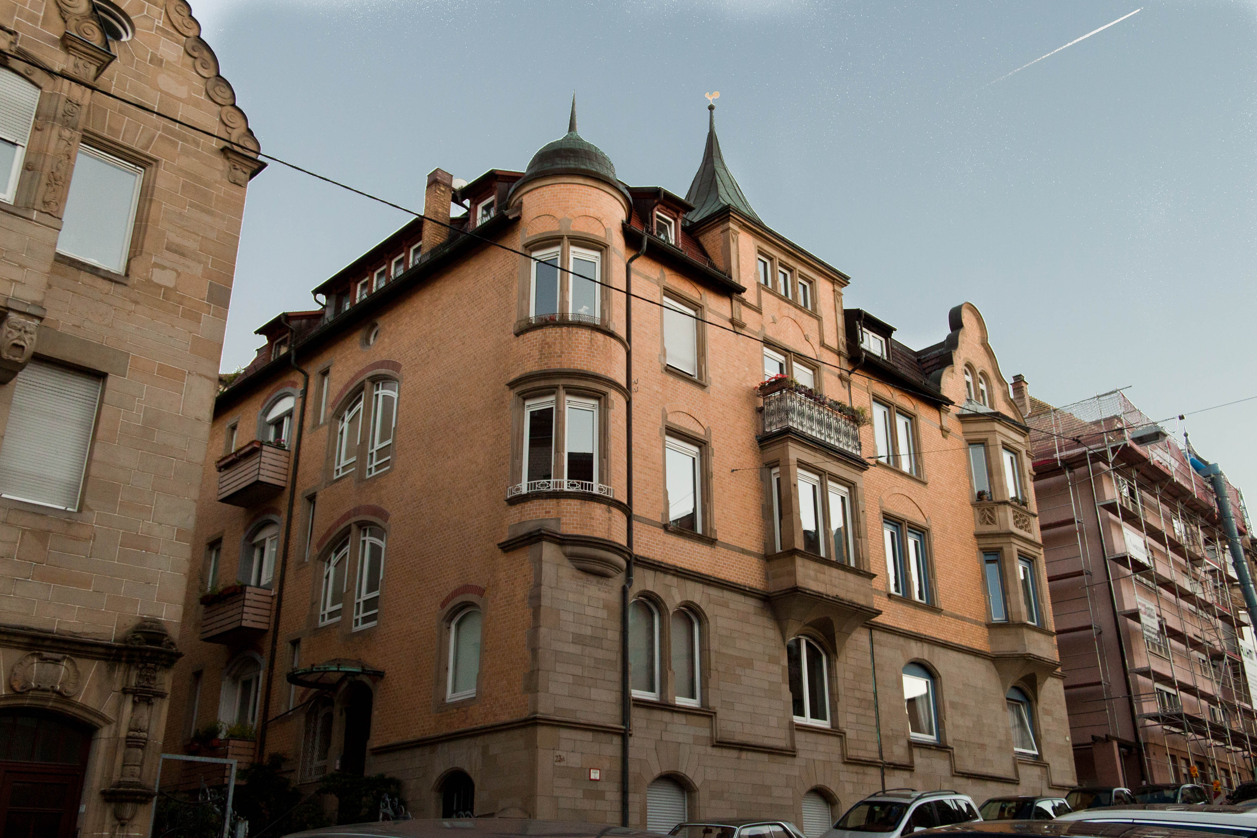 House Danneckerstrasse 23 A-B Stuttgart Germany